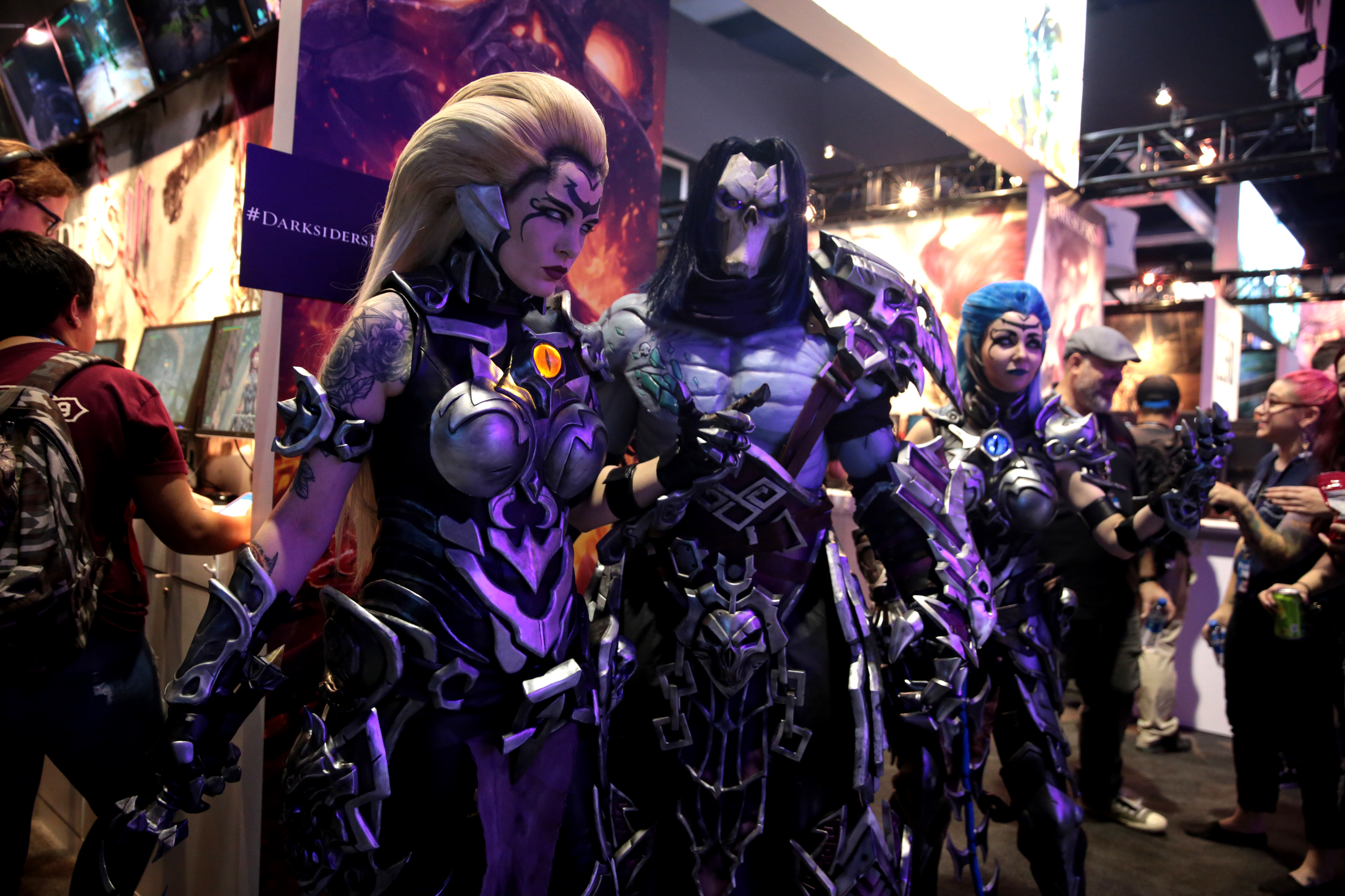 Darksiders cosplayers at the 2018 PAX West at the Washington State Convention Center in Seattle, Washington.